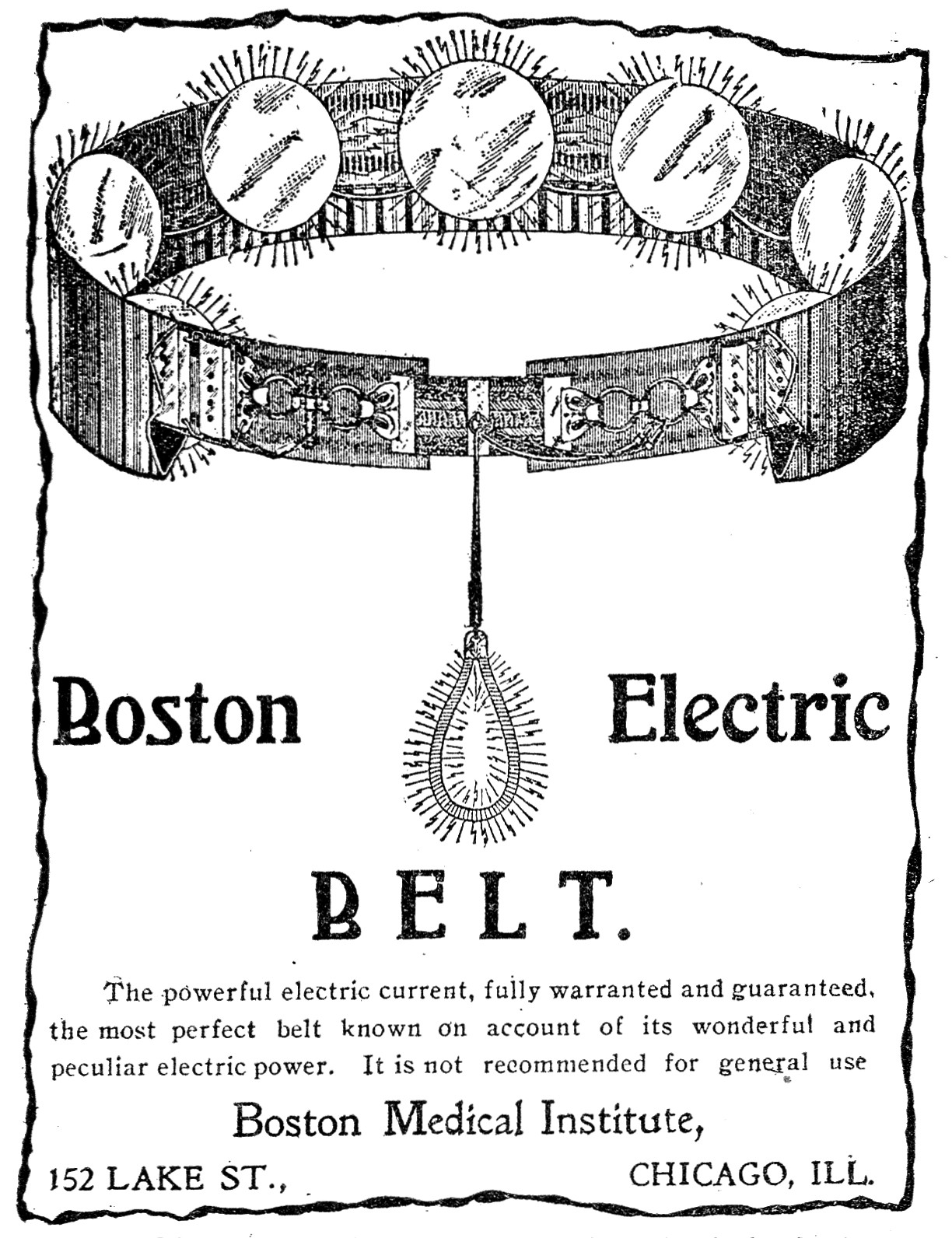 Engraving and text: advertisement for the 'Boston Electric Belt'. Wellcome Images Keywords: ADVERTISEMENT; boston electric belt; Quackery; Advertisements